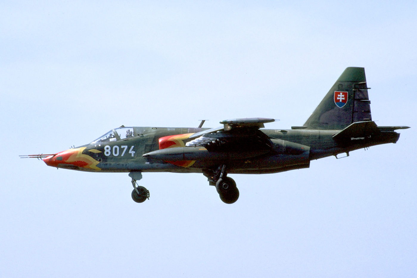 Malacky, 17 August 1994. A fast looking Frogfoot! It came with 12 other Su-25s from the inventory of the Czechoslovak Air Force in 1993 and was sold to the Armenian Air Force with 9 others in 2004.